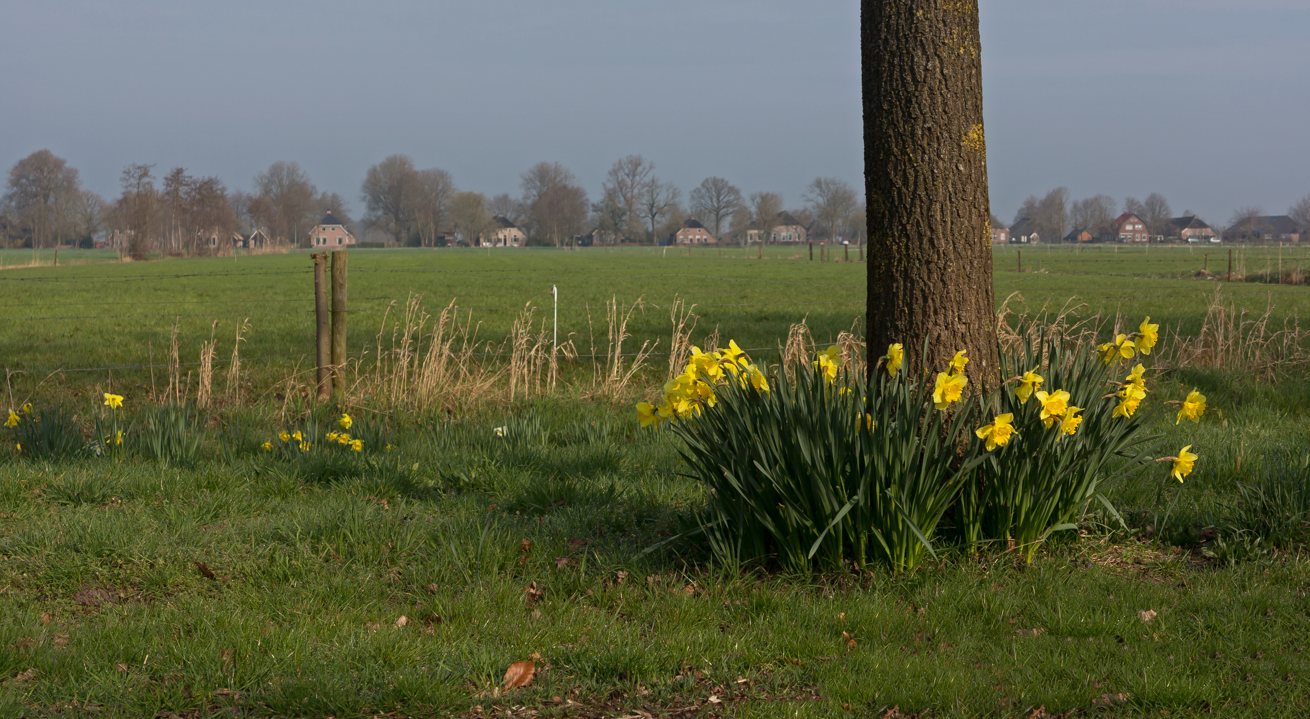 between Oosteinde and Ruinerwold, narcisses near a tree